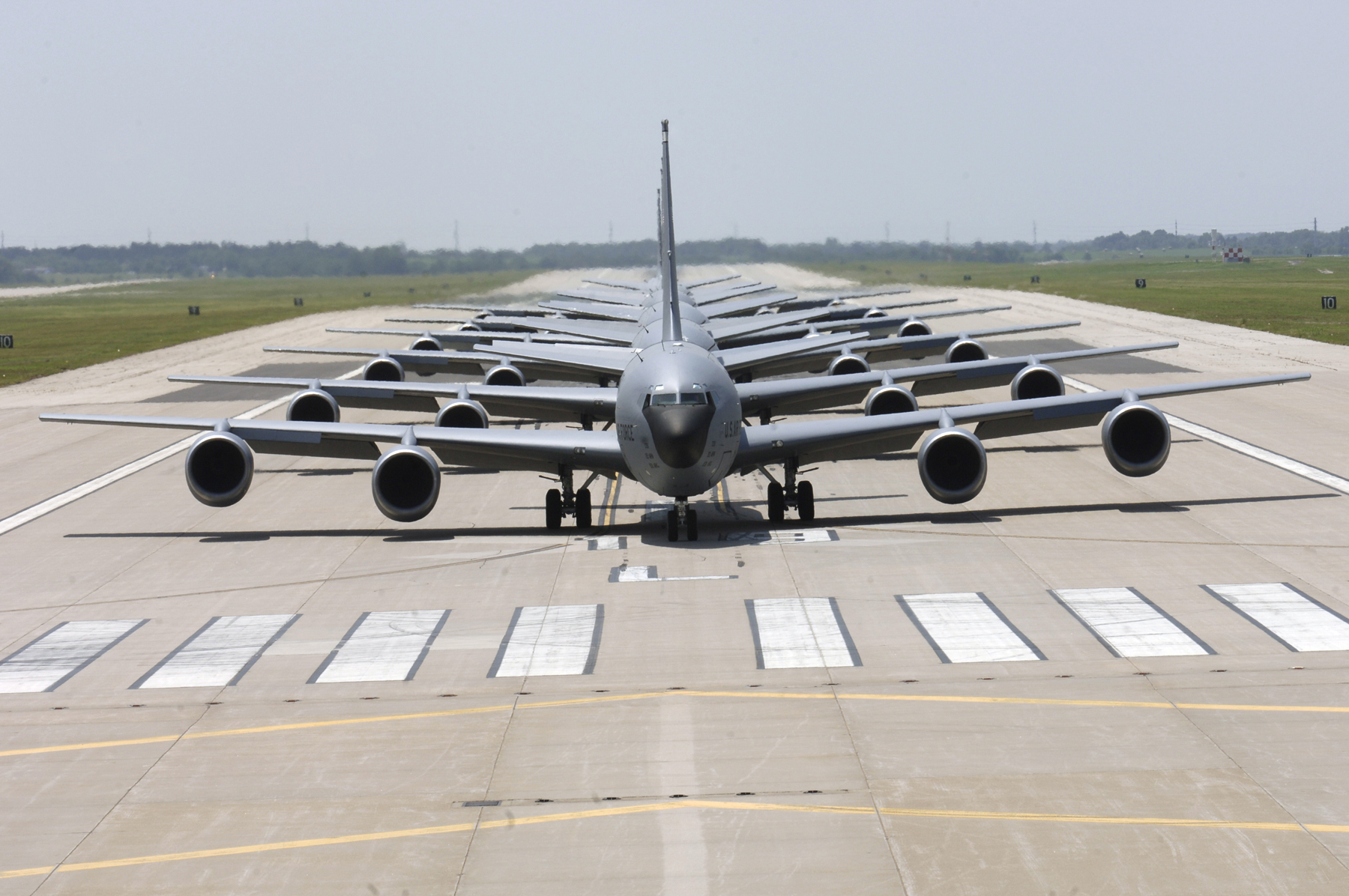 Six McConnell KC-135 Stratotankers demonstrate the "elephant walk" formation as they taxi down a runway here Aug. 5 during a generation exercise. The exercise showcased McConnell aircrews? capability to prepare a flight and take off within minutes of being notified of a mission. These types of exercises are conducted randomly each year. (Photo by Airman 1st Class Laura Suttles) Source: USAF